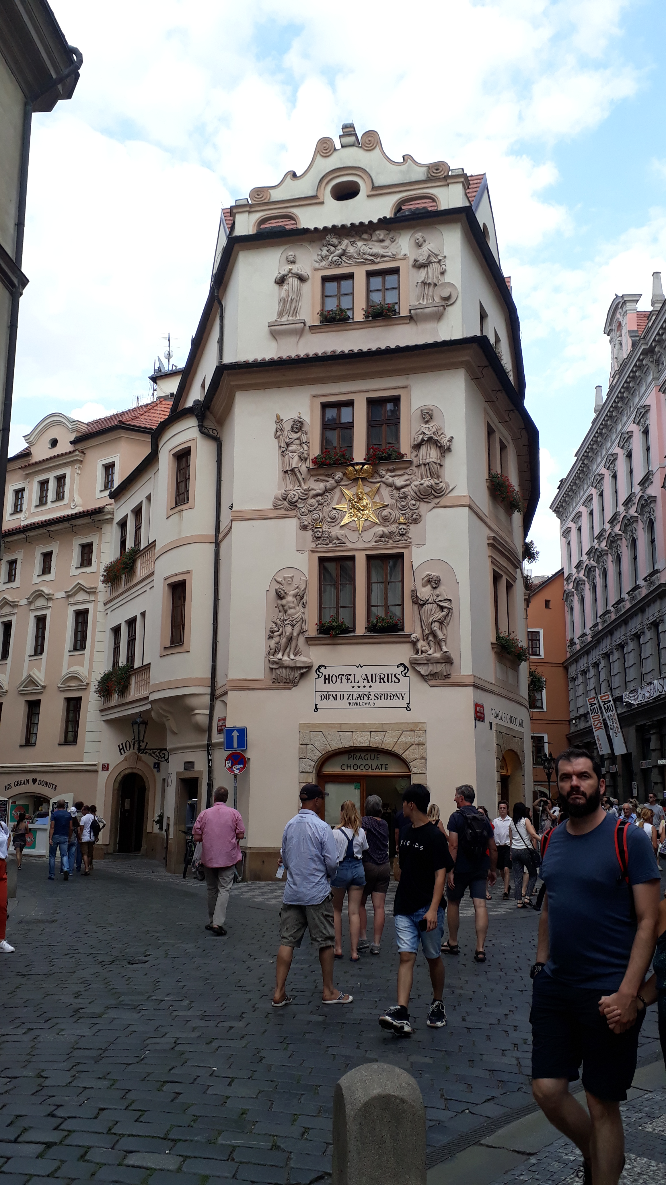 Haus dum U zlaté stuone